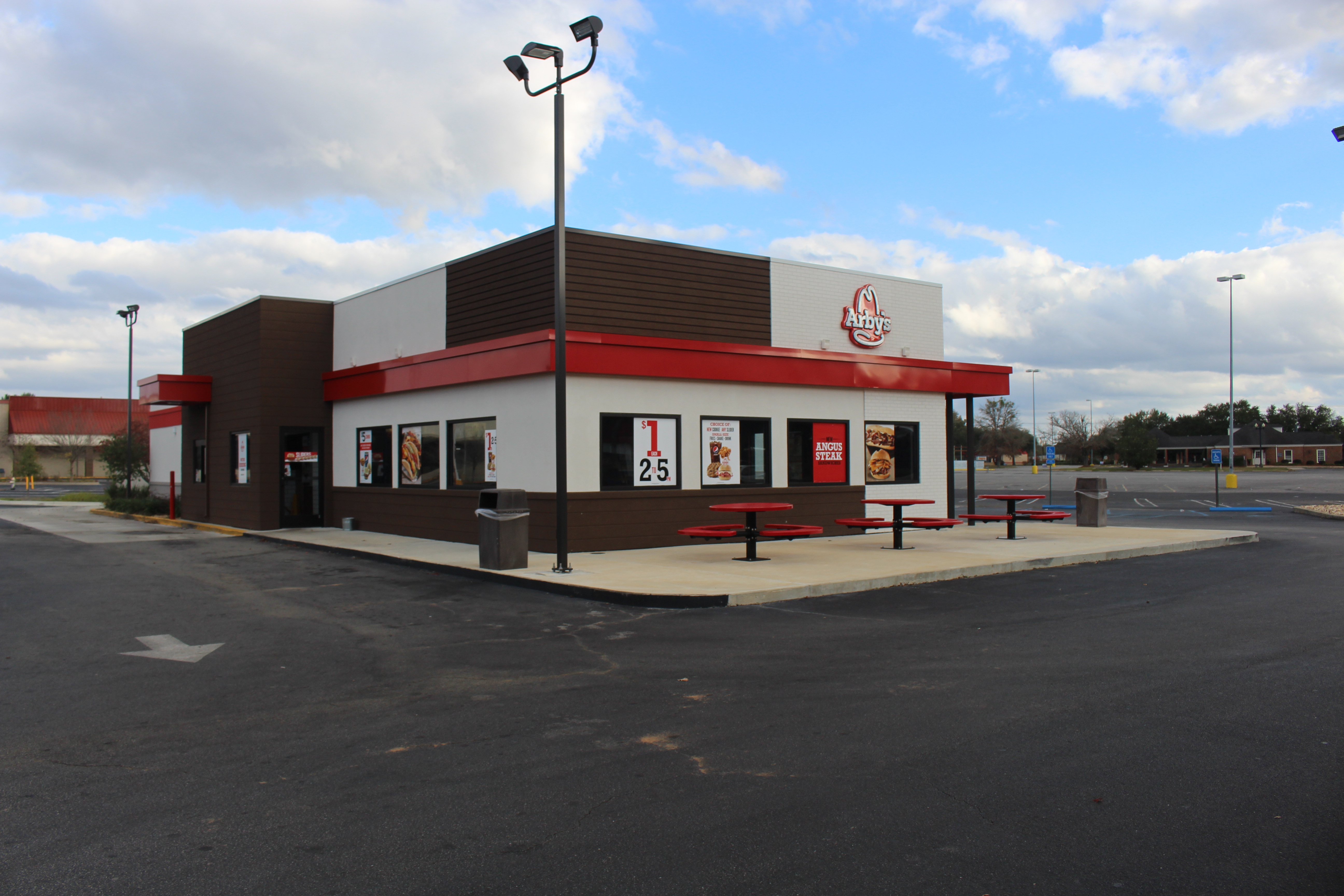 Arby's, Thomasville, Thomas County, Georgia